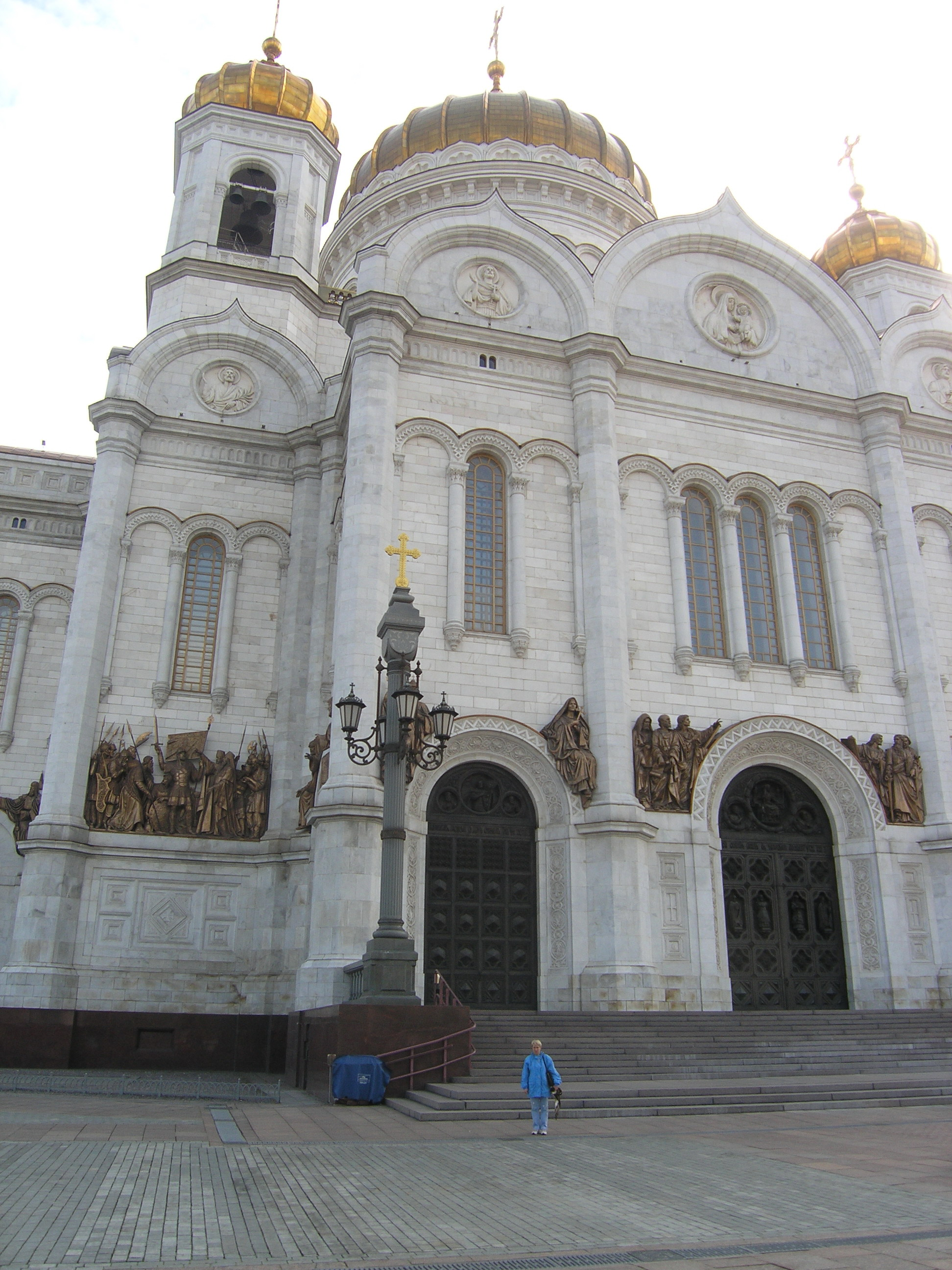 Cathedral of Christ the Saviour. Moscow, Russia.